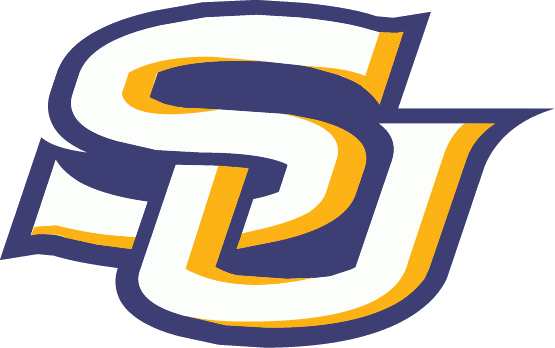 Southern University "SU" logo